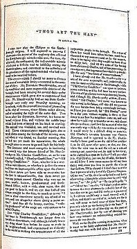 A scan of the first page of the short story "Thou Art the Man!" by Edgar Allan Poe from Godey's Ladies Book, November 1844, from the bound edition containing Volumes 28 and 29, January to December 1844.